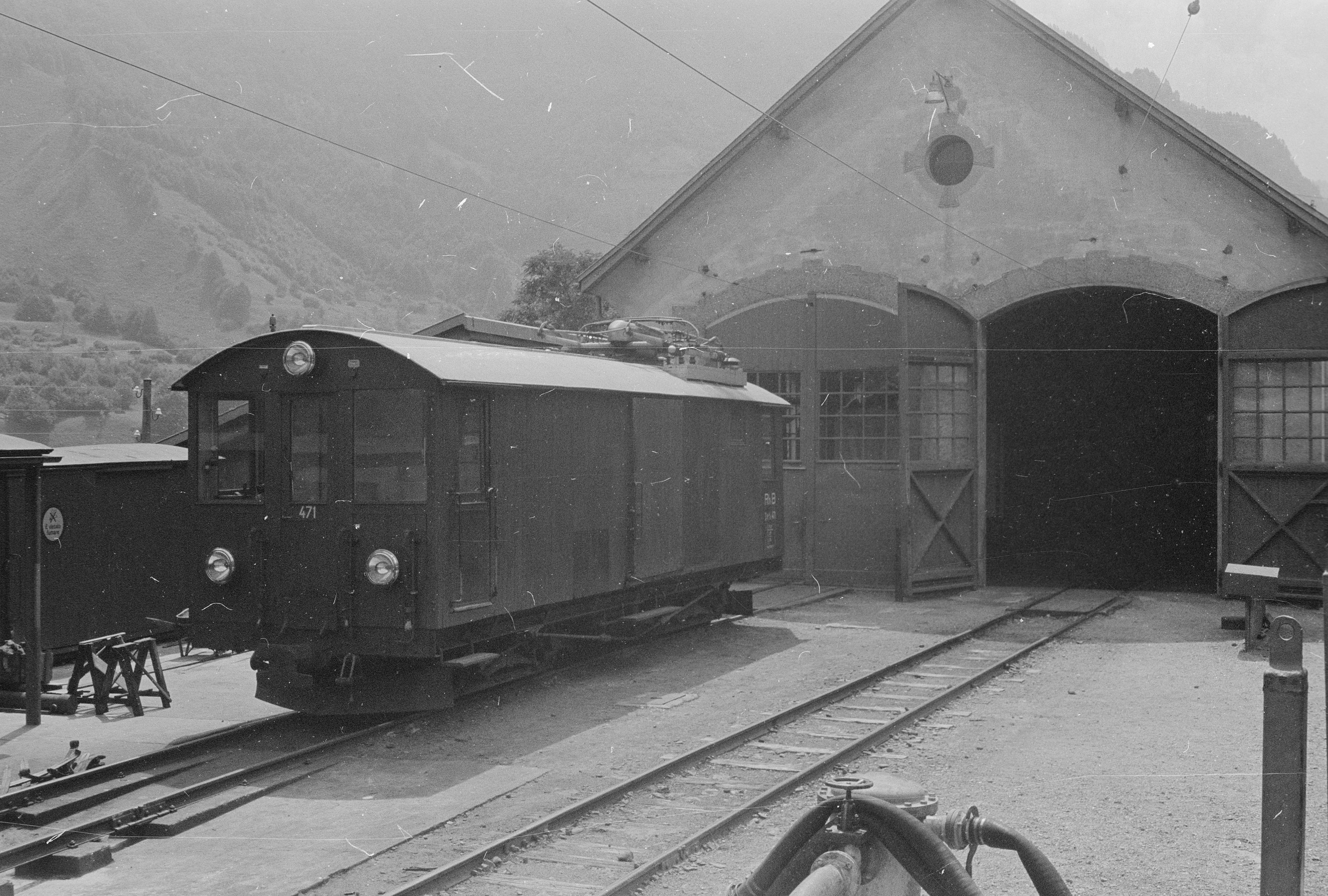 RhB Fe 4/4 471 at Mesocco railway station.